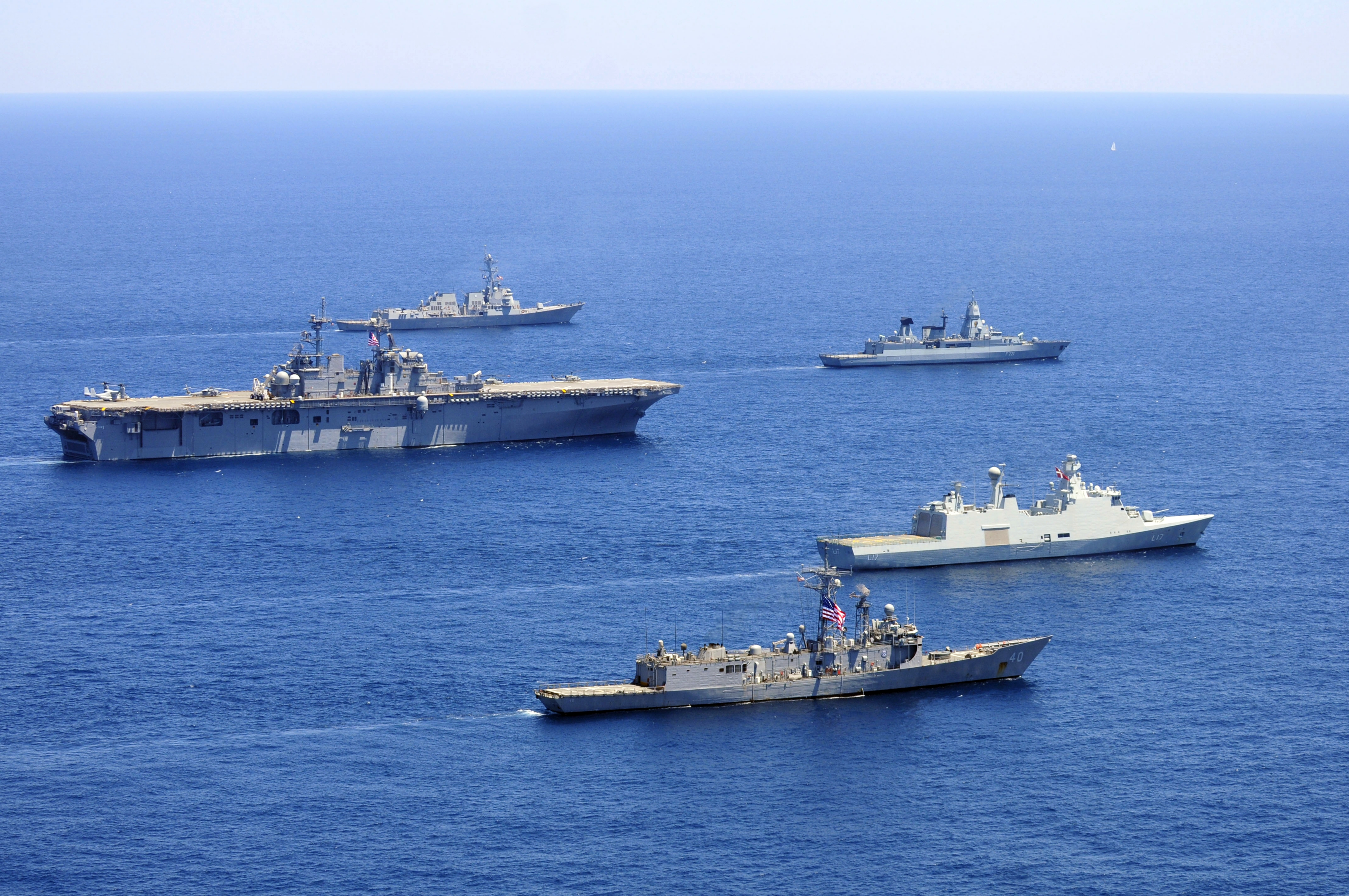 The U.S. Navy amphibious assault ship USS Wasp (LHD-1) alongside coalition partner ships during a sailing event while participating in the "War of 1812" fleet exercise. The exercise wa a week-long multi-national exercise involving 19 ships from the United States, Canada, the United Kingdom, Germany, Norway, Denmark, Brazil, and Portugal, and is designed to increase interoperability with allied nations, improve tactical prowess and certification of participating units. Besides Wasp, the following ships are visible (front to back): USS Halyburton (FFG-40), the Danish support ship HDMS Esbern Snare (L17), the German frigate Hessen (F 221), and USS Gravely (DDG-107).